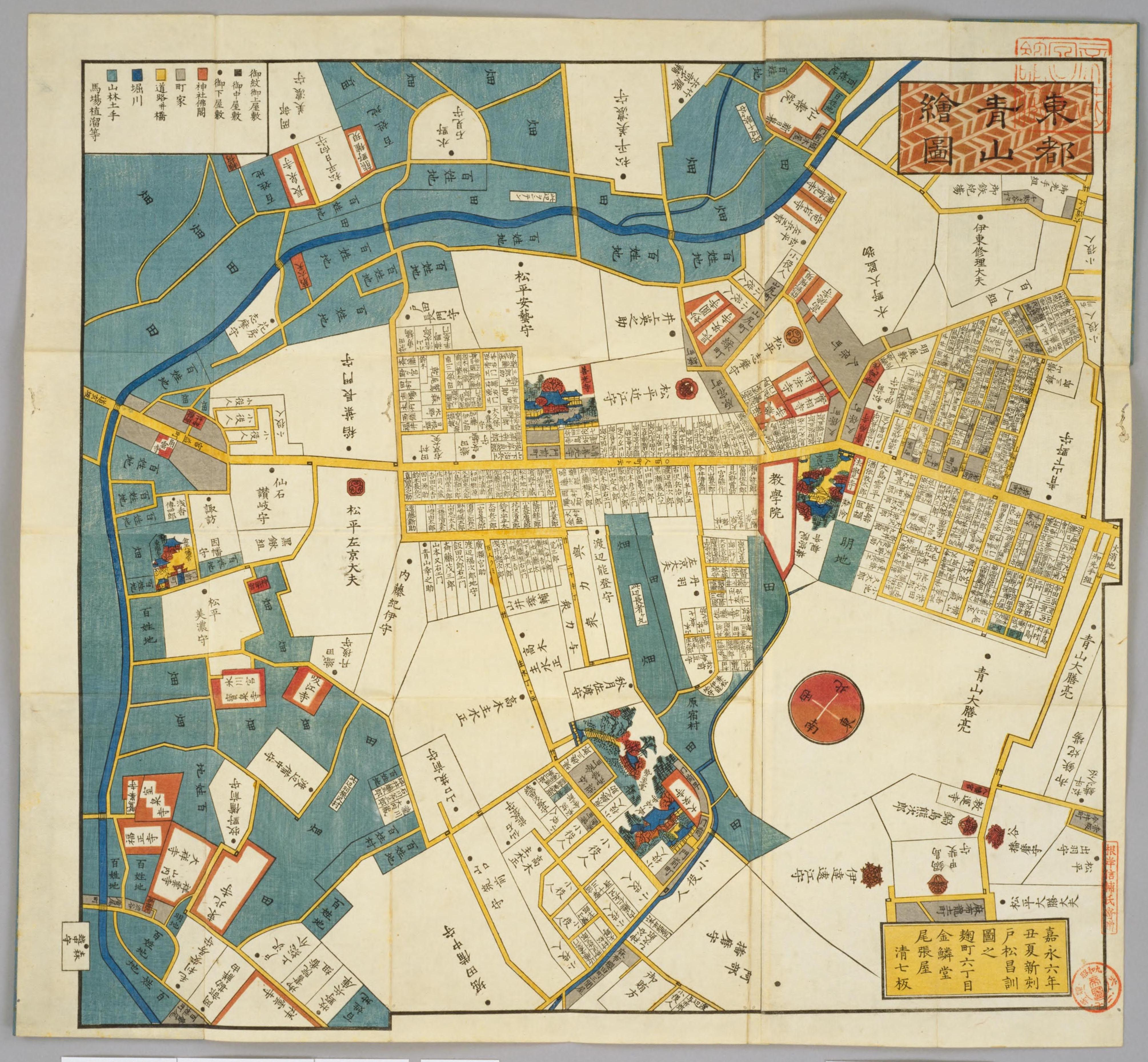 1853 Edo map around current Aoyama street, from Miyamasusakaue 宮益坂上 on the left, to Aoyama-2-chome 青山二丁目 on the right. The north is 38 degrees to the above right (See orientation symbol in the red circle.) Regarding to credit in the old map 切絵図 it was published from Kinrindo 金隣堂 in Owariya 尾張屋 (1849-1870) runned by Kiyoshichi 清七. Regarding to the owner stamps, it was owned by Shinsuke Negishi 根岸信輔 or his other name 根岸友山 (1810-1890）or his son Takeka 根岸武香 (1839-1902), and donated to the Imperial Library 帝国図書館 (1897-1949) in 27th June, 1934 supposedly from their bereaved family.